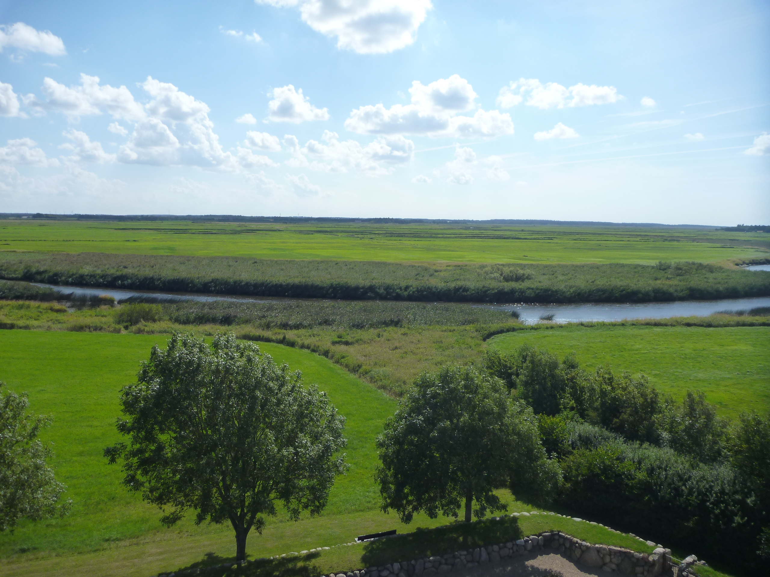 South view towards Varde Å from the church tower at Janderup Kirke, Denmark.